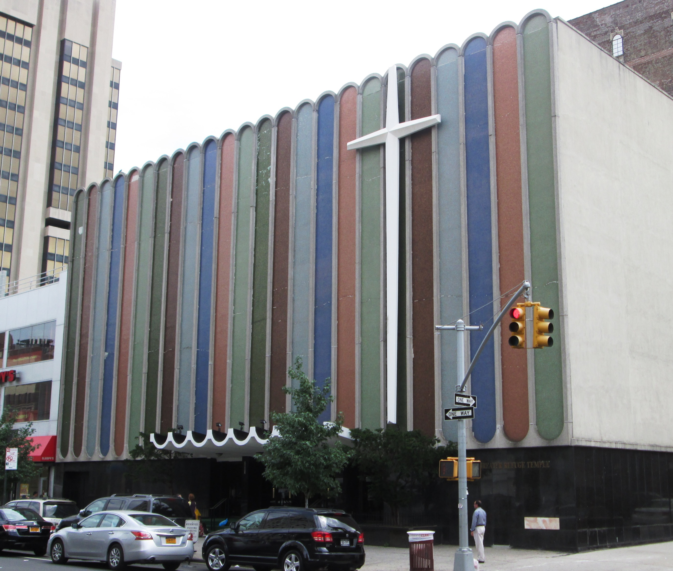 The Greater Refuge Temple of the Church of Our Lord Jesus Christ at 2081 Adam Clayton Powell Jr. Boulevard at the corner of West 124th Street in the Harlem neighborhood of Manhattan, New York City was built beginning in 1889 and was formerly the West End Theatre (unfinished), then the Harlem Casino (mid-1890s), and later a Loew's vaudeville and movie theater (1910-1934). The church was founded as the Refuge Temple in 1919 by Robert C. Lawson and worshipped in two other locations before moving here in 1945. The building was renovated and given a completely new facade in 1966 by Costas Machlouzarides. (Sources: AIA Guide to NYC (5th ed.), Harlem Bespoke,Gotham Lost and Found,Harlem World and From Abyssinian to Zion (2004))